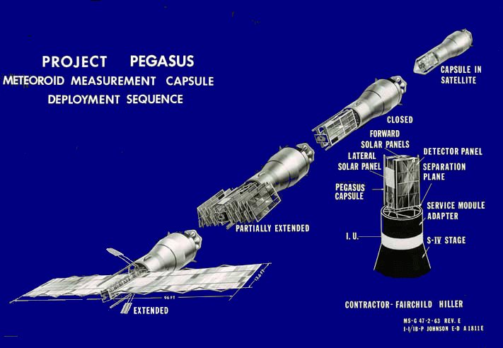 Deployment sequence of a Pegasus satellite.